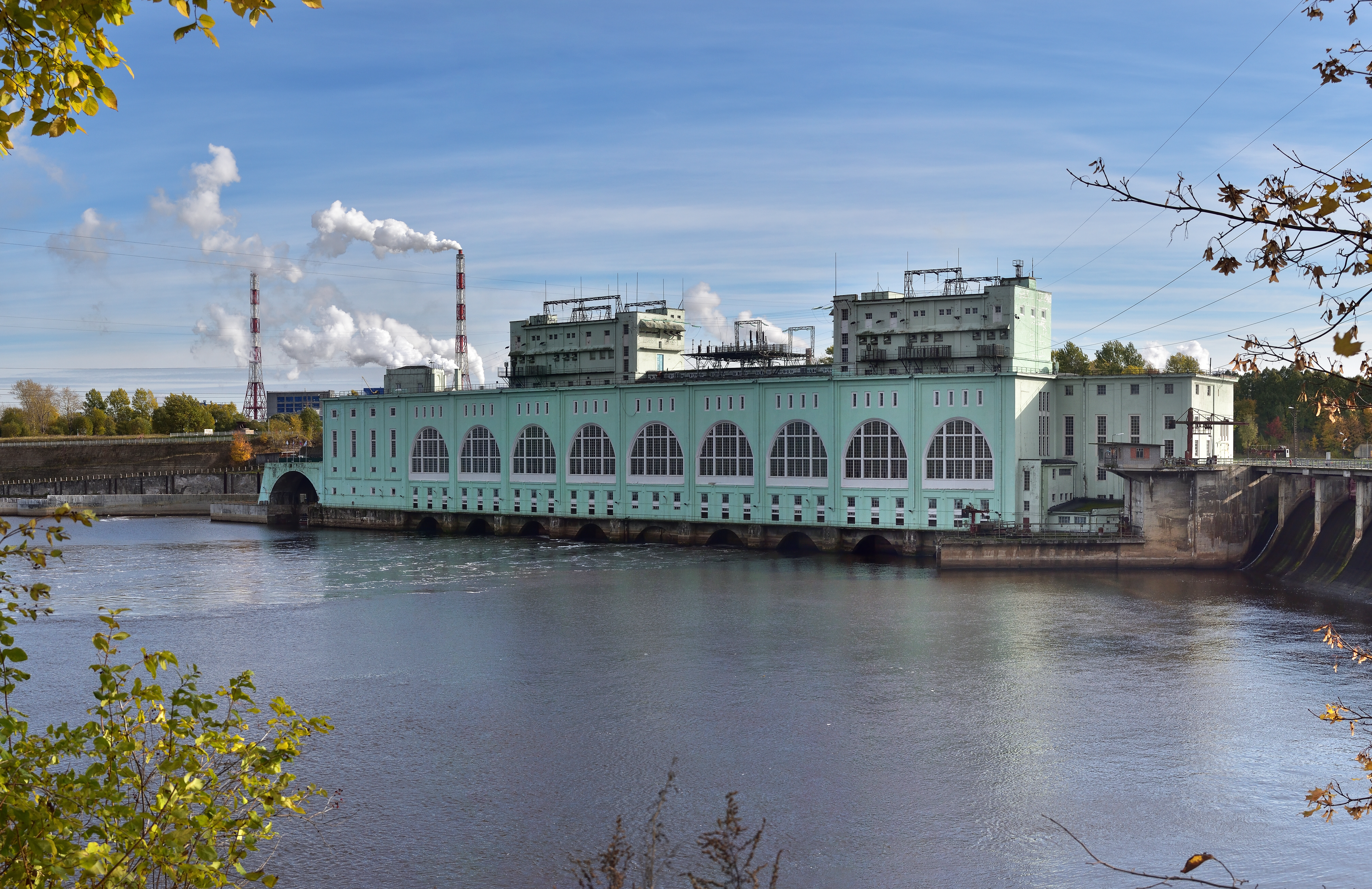 Volkhov Hydroelectric power plant, Leningrad oblast, Russia